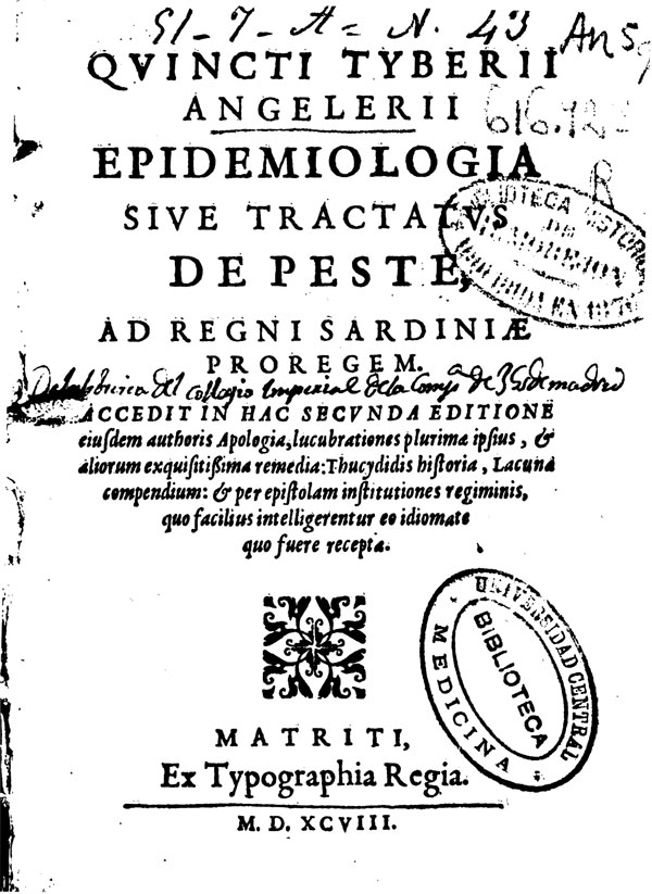 Frontispiece of the Epidemiologia Sive Tractatus de Peste.